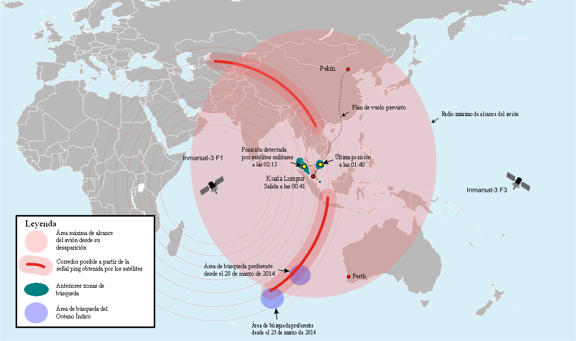 Map of the area where Malaysia Airlines Flight 370 could be found theoretically (Spanish).